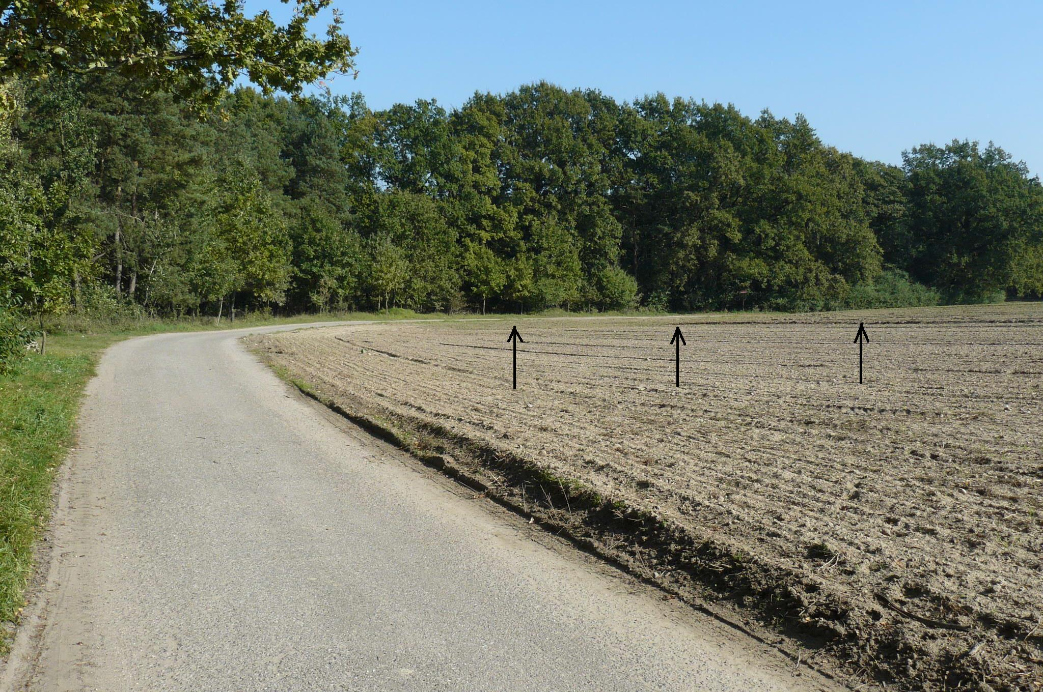 Gugulec nature reserve, PL.